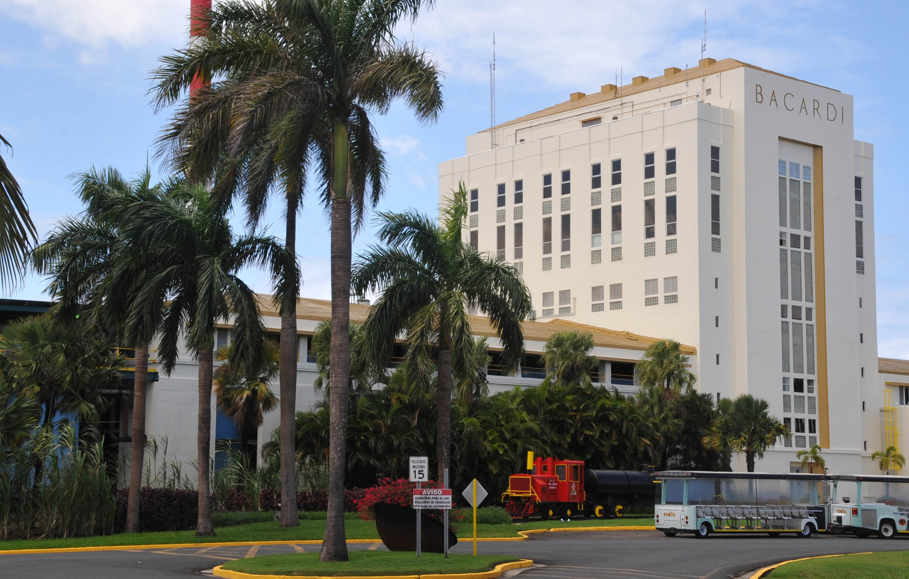 THE BACARDI RUM DISTILLERY WAS STARTED IN SANTIAGO DE CUBA IN 1862 BY DON FACUNDOI BACARDI MASSO. THEY LEARNED TO PASS RUM THROUGH CHARCOAL TO REMOVE IMPURITIES AND AGE IT IN OAK BARRELS TO GIVE IT SMOOTHNESS. ERNESTO SHUEG, A BROTHER-IN-LAW STARTED PRODUCTION IN PUERTO RICO IN 1930